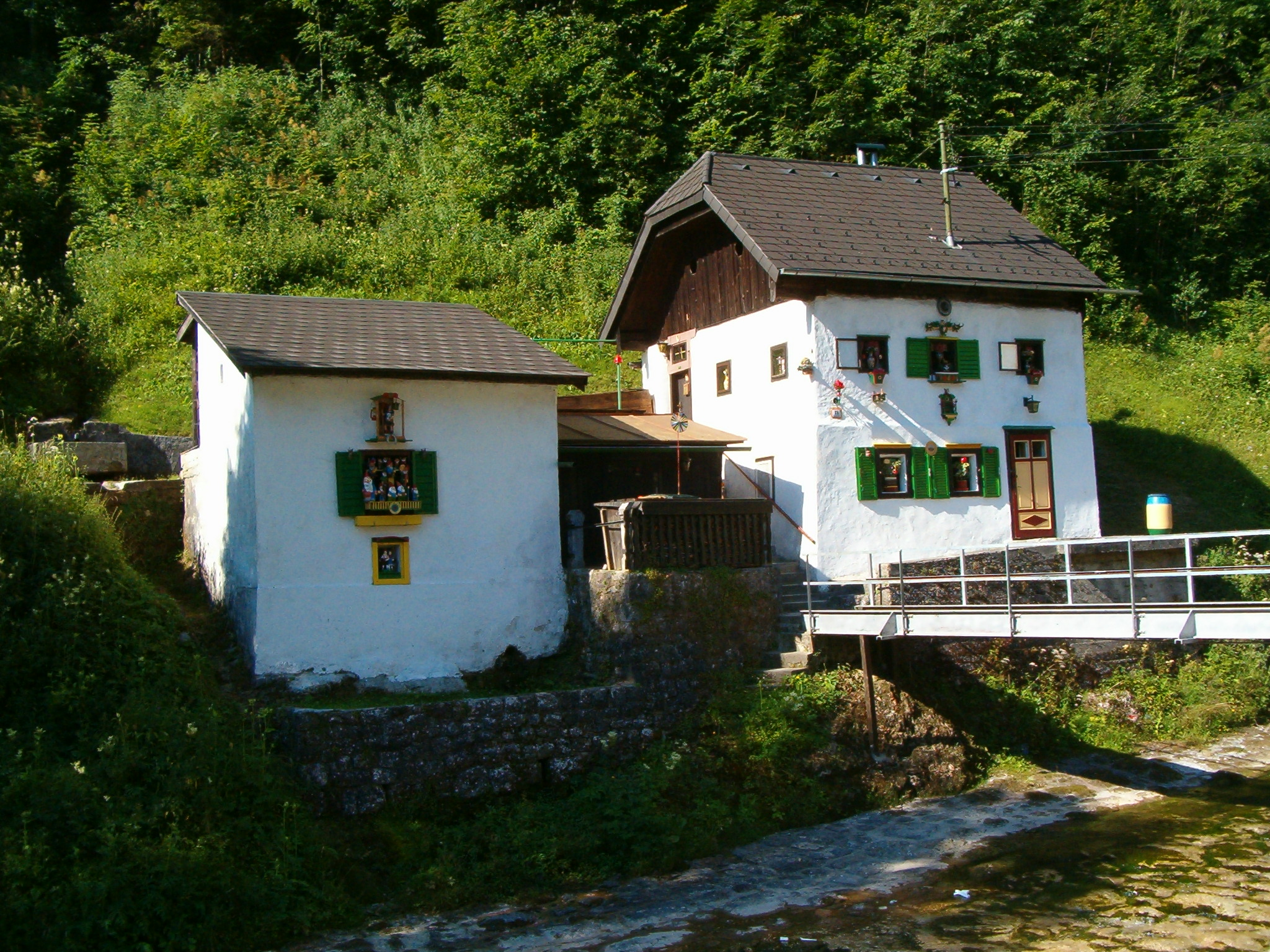 Town Ebensee - sight to the house near the road to the Langbathsee lake, Austria.